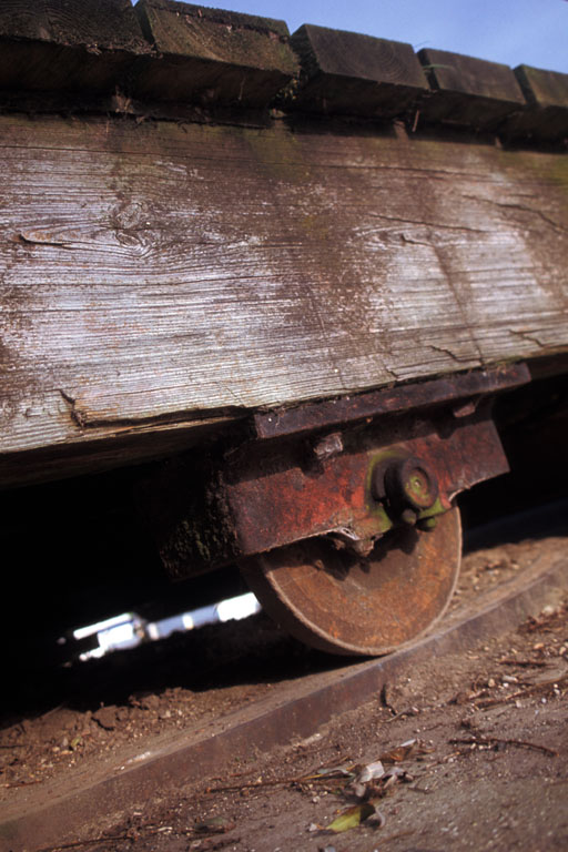 One of the four stabilizing wheels on Bethells Swing Bridge, Hempholme, East Riding of Yorkshire, England (Michael Askin)